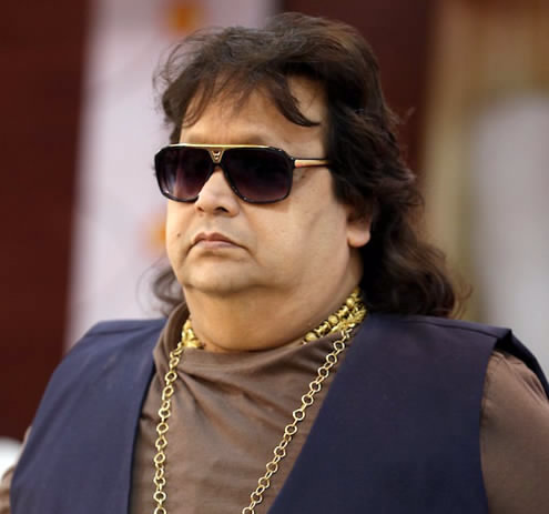 Bappi Lahiri at the prayer meet of Sajid-Wajid's father